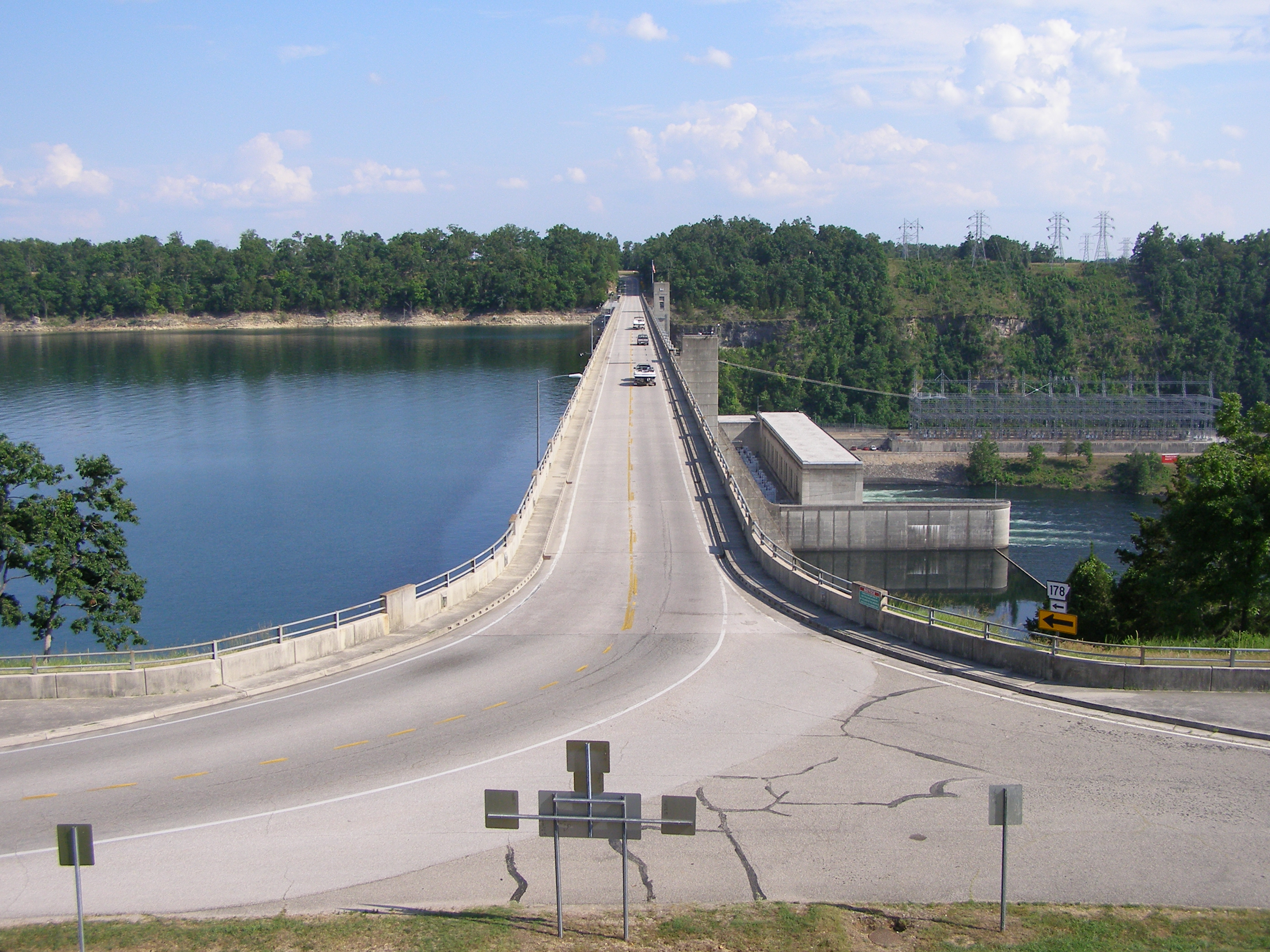 The hydroelectric dam at Bull Shoals State Park, Arkansas.